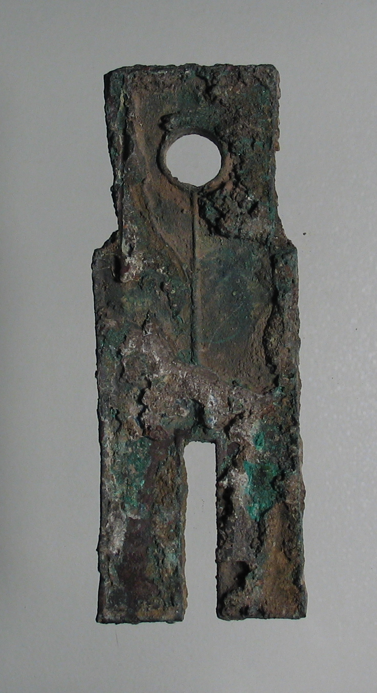 Chinese Pu money made of bronze in the Wang Mang period of Han dynasty. Photo taken (on 28 Jan 2006) and uploaded by Roger McLassus (owner).